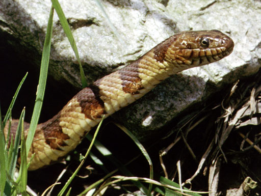 Northern Watersnake, Nerodia sipedon. Location: Durham, North Carolina, United States